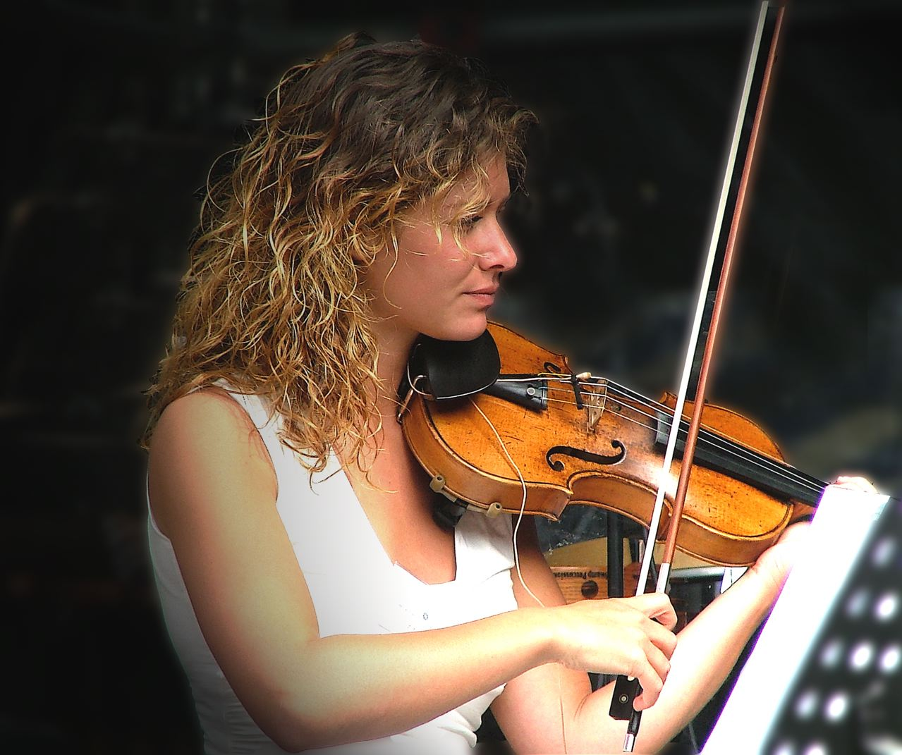 The Hague exercise for the concert